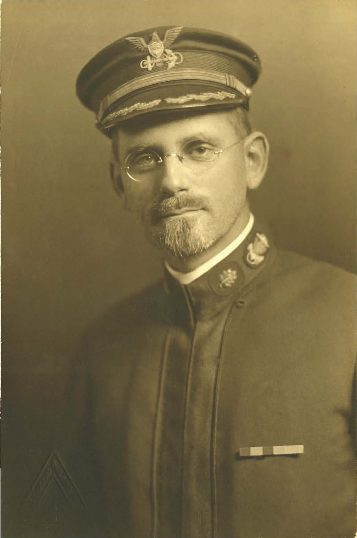 Capt. Charles Satterlee